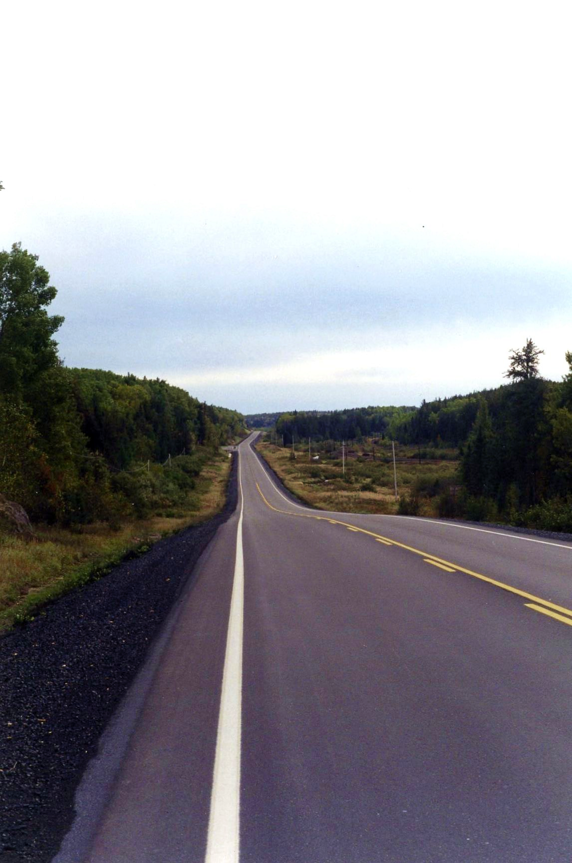 Ontario Highway 101 between Wawa and Chapleau. (Haze reduced from original on Flickr)